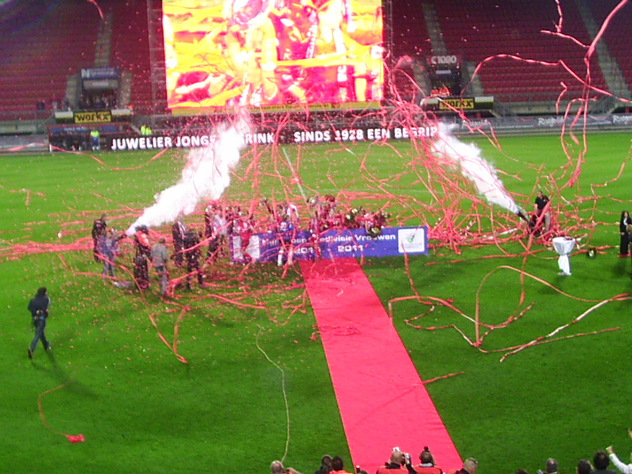 FC Twente Women Eredivisie champions 2010-11